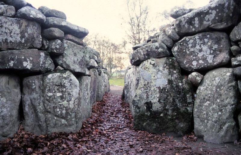 Entrance of a Clava cairn at Balnuaran of Clava, Scotland